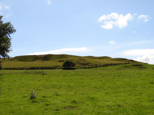 North-east ramparts of Castell Bwa-drain Viewed from the footpath near Bwa-drain farm.